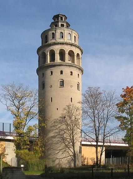 Water tower in Niederlehme. Landmark of the village and of Berlins circular Autobahn. Built in 1902 out of sand-lime brick, modelled on the Galata Tower in Istanbul. Niederlehme is a part of the town Königs Wusterhausen in the district Dahme-Spreewald, state Brandenburg, Germany.